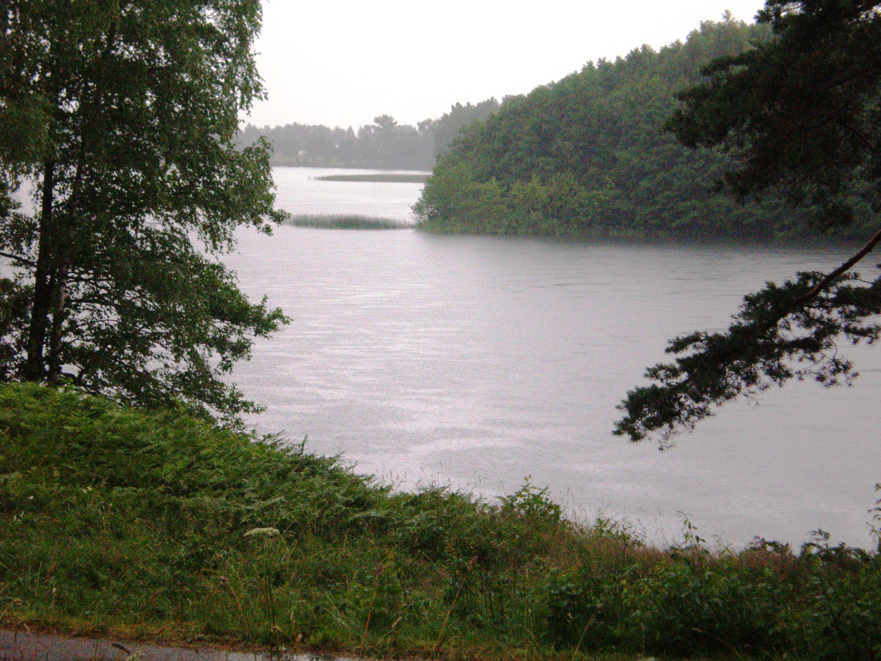 Gavys Lake to south from Strigališkis village in Lithuania